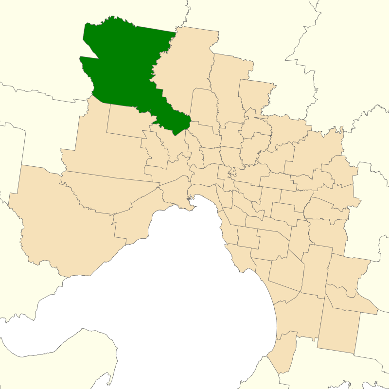 Location of the Victorian electoral district of Sunbury (dark green) in the Greater Melbourne area.